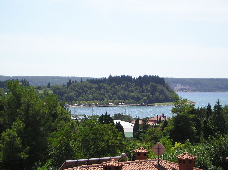 Portorož (Portorose in Italian, literally "Port of Roses") is a coastal town in Slovenia and one of the country's largest tourist areas. Belonging to the Municipality of Piran